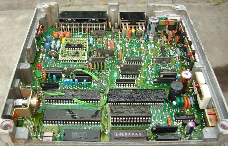 Mid 80's JECS LH-Jetronic ECU. 40 pin IC bottom left is Hitachi Motorola 6800 clone, 28 pin IC (socketed) immediately right is 16kB ROM containing maps. JECS logo bottom left. Took photo myself, 3rd September 2006, Melbourne, Australia, photo shows JECS RB30E ECU.